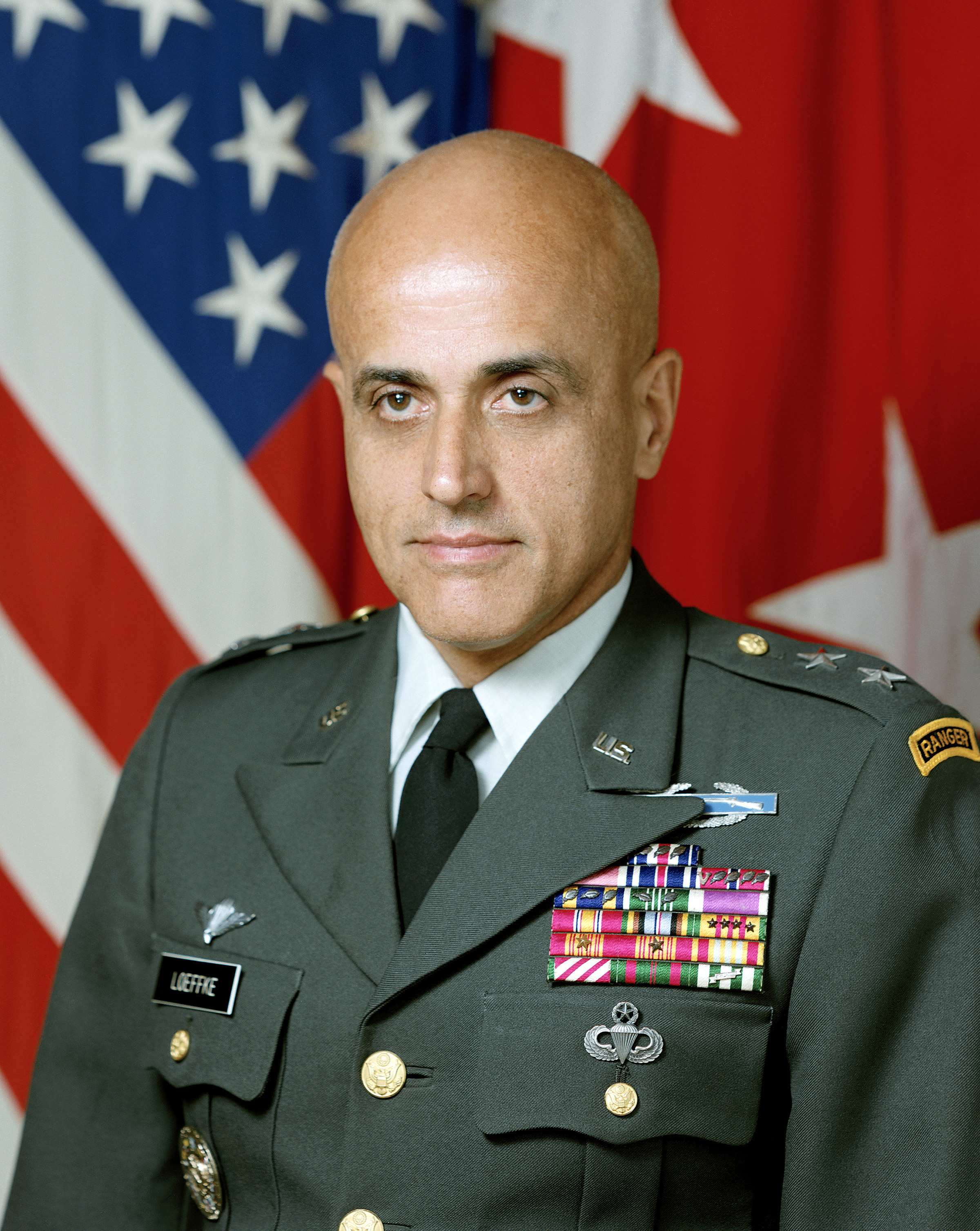 Portrait of U.S. Army Maj. Gen. Bernard Loeffke, (Uncovered), Commanding General U.S. Army, South, (U.S. Army photo by Russell F. Roederer) (Released) (PC-191524)